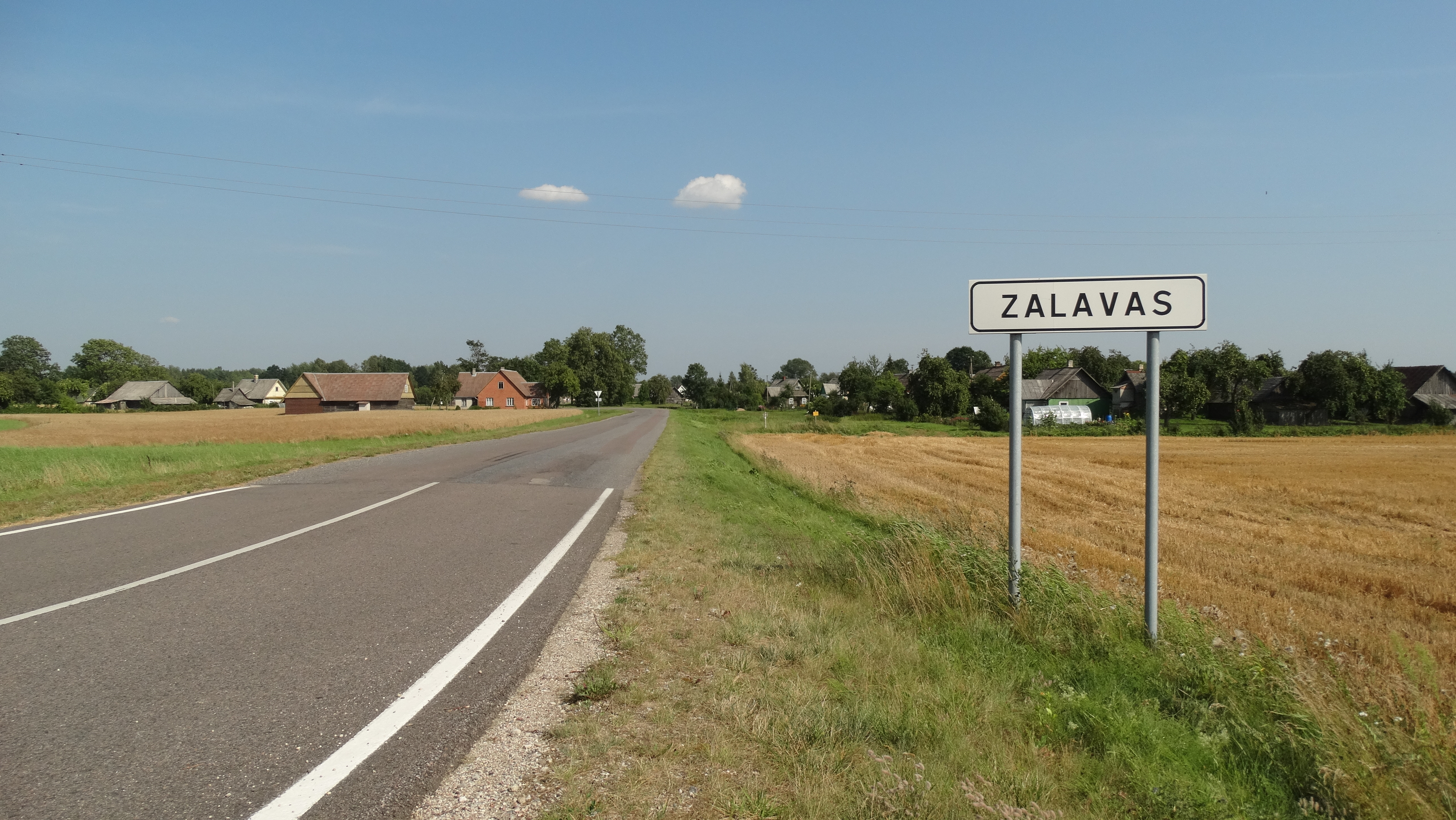 Zalavas, Švenčionys district, Lithuania